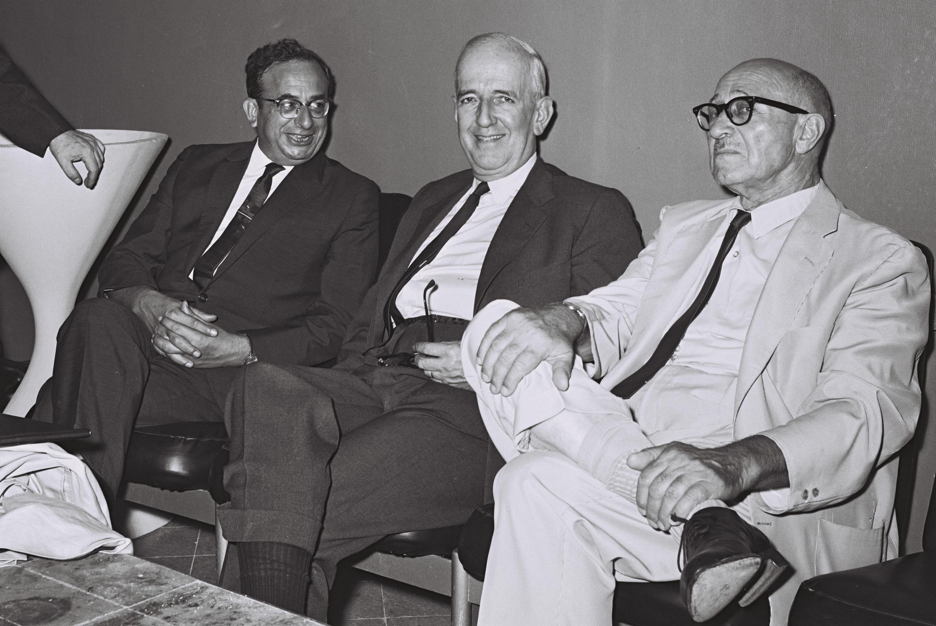 Sec. gen. of the interpaliamentary union Andre de Blonay after his arrival at Lod airport for the inauguration ceremony of the new Knesset building in Jerusalem.